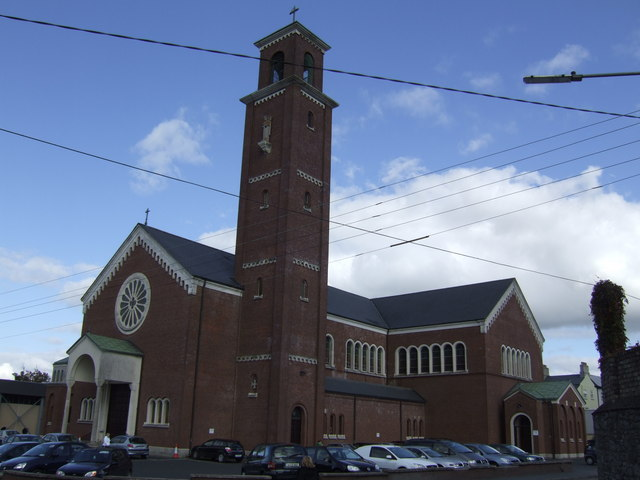 Roman Catholic Church of St. Michael, Athy, Co. Kildare On the Monasteverin road, the R417, north of the town centre.